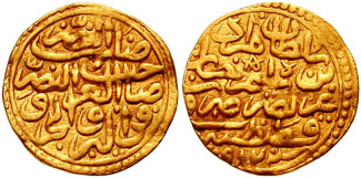 Turkey. Ottoman Empire. Murad III. 1574-1595 AD. AV Sequin (20mm, 3.40 g). Constantinople mint. Dated AH 982 (1576 AD). Arabic legend Arabic legend. Friedberg 1. Gold coin